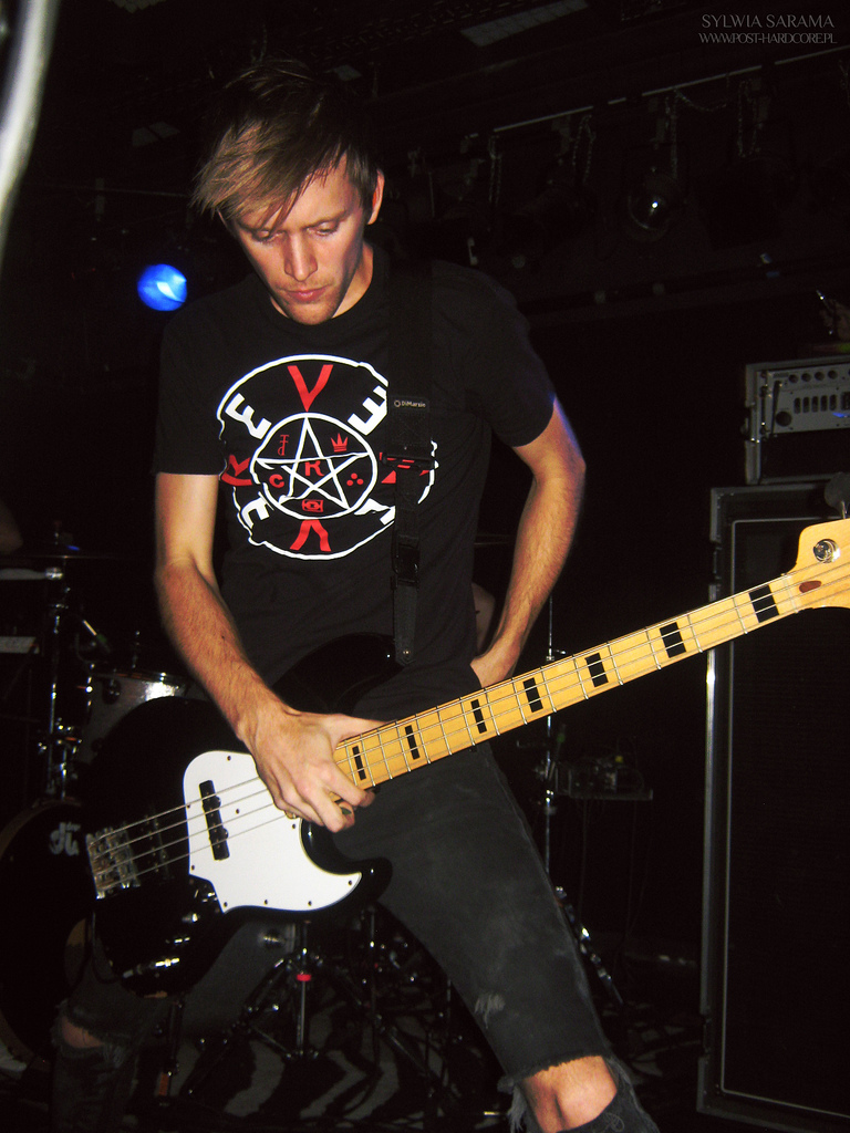 Jared Warth from Blessthefall @ Magnet Club, Berlin, DE (03/10/2011)